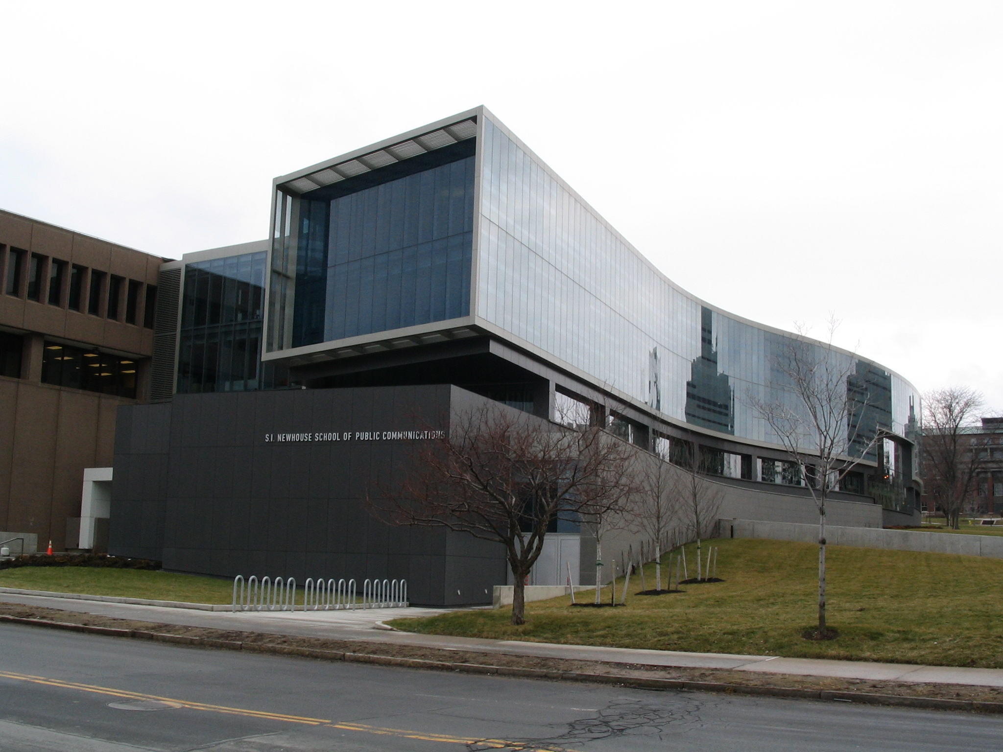 This is an image of part of the interior of Newhouse Communications Center III that I took with my digital camera. This building is located on Syracuse University.